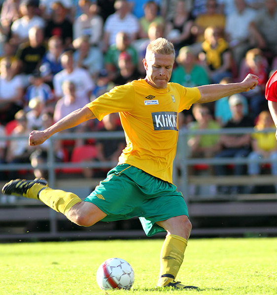 Football player Jari Niemi of Ilves, Tampere